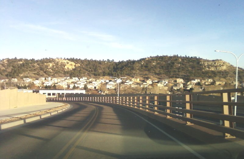 Cragmor Village Road eastbound near Cragwood Dr, parallel to Austin Bluffs Pkwy in Colorado Springs, Colorado..